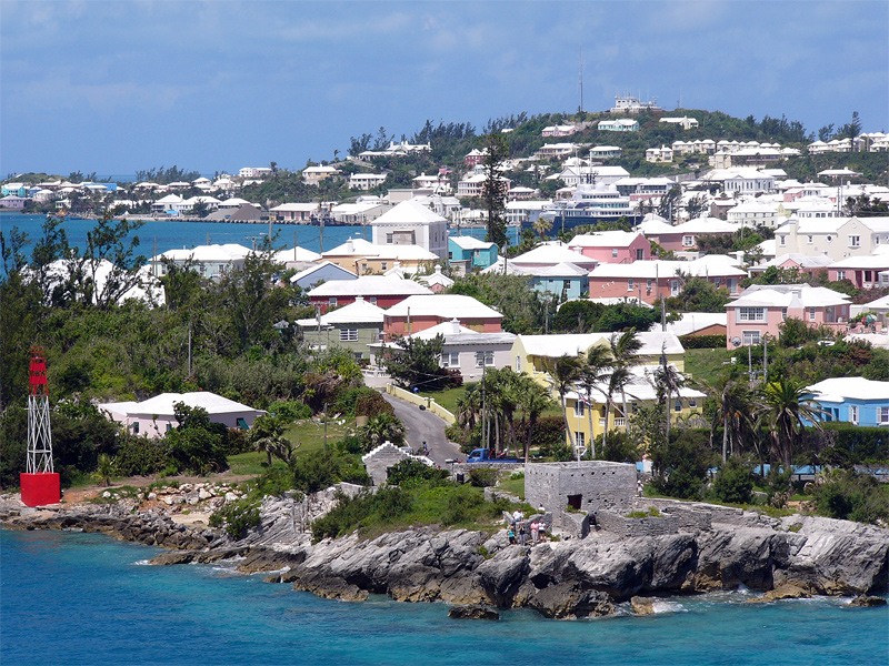 Residential scene in Bermuda.